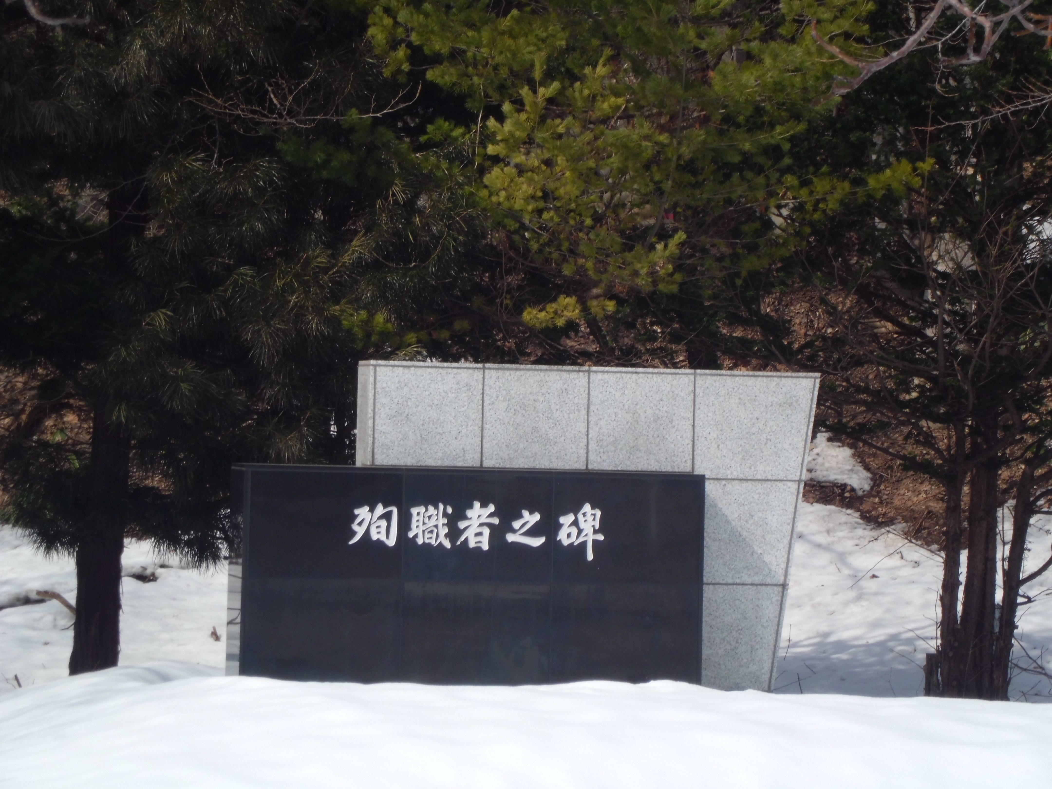 Cenotaph for Moiwa Power Station